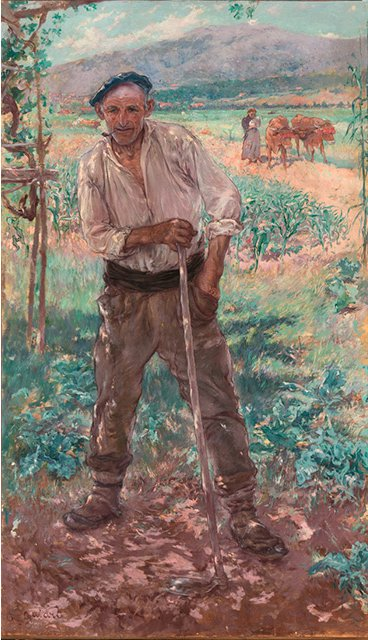 Villager from Bakio by Adolfo Guiard, 1886, oil on canvas, 127 x 76.2 cm., private collection